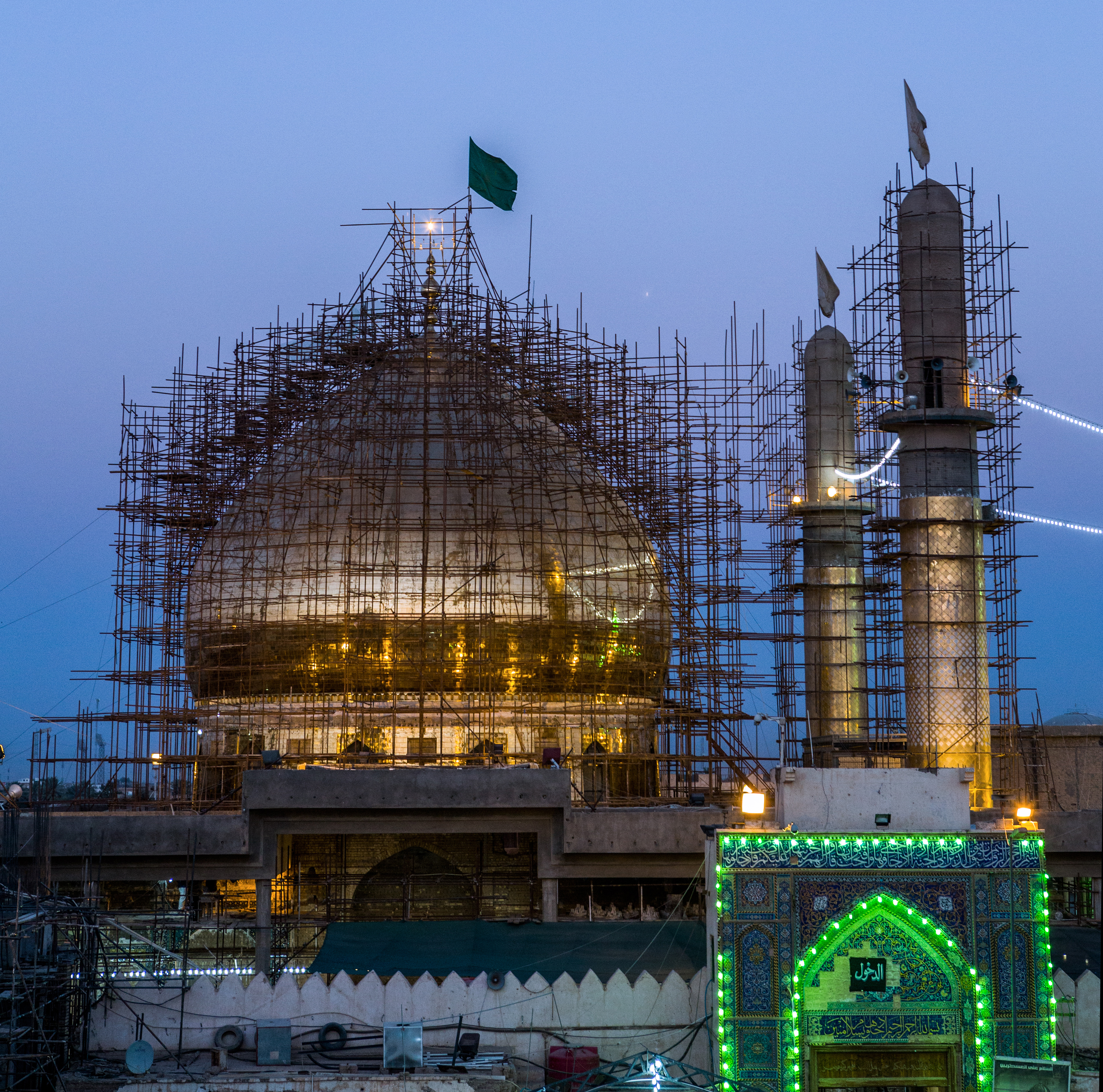 Repairs to the al-Askari Mosque, October 2013, Samarra, Iraq. Shrine of the 10th and 11th Shia Imams: Ali al-Hadi & Hasan al-Askari.